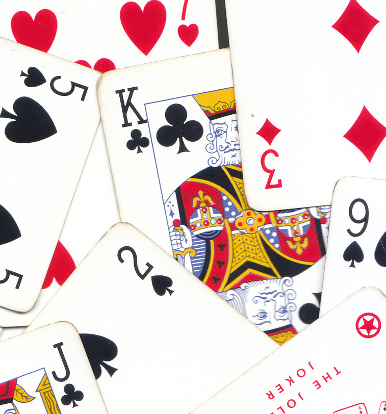 All the poker playing cards can be marked well with invisible ink marks. For the marked cards here, we refer to the invisible ink marked playing cards for infrared contact lenses or marked cards glasses to see. Usually these are back marked decks, with numbers and suits marks in the middle or at four corners. Also we can make other special marks according to our customer's requirements.